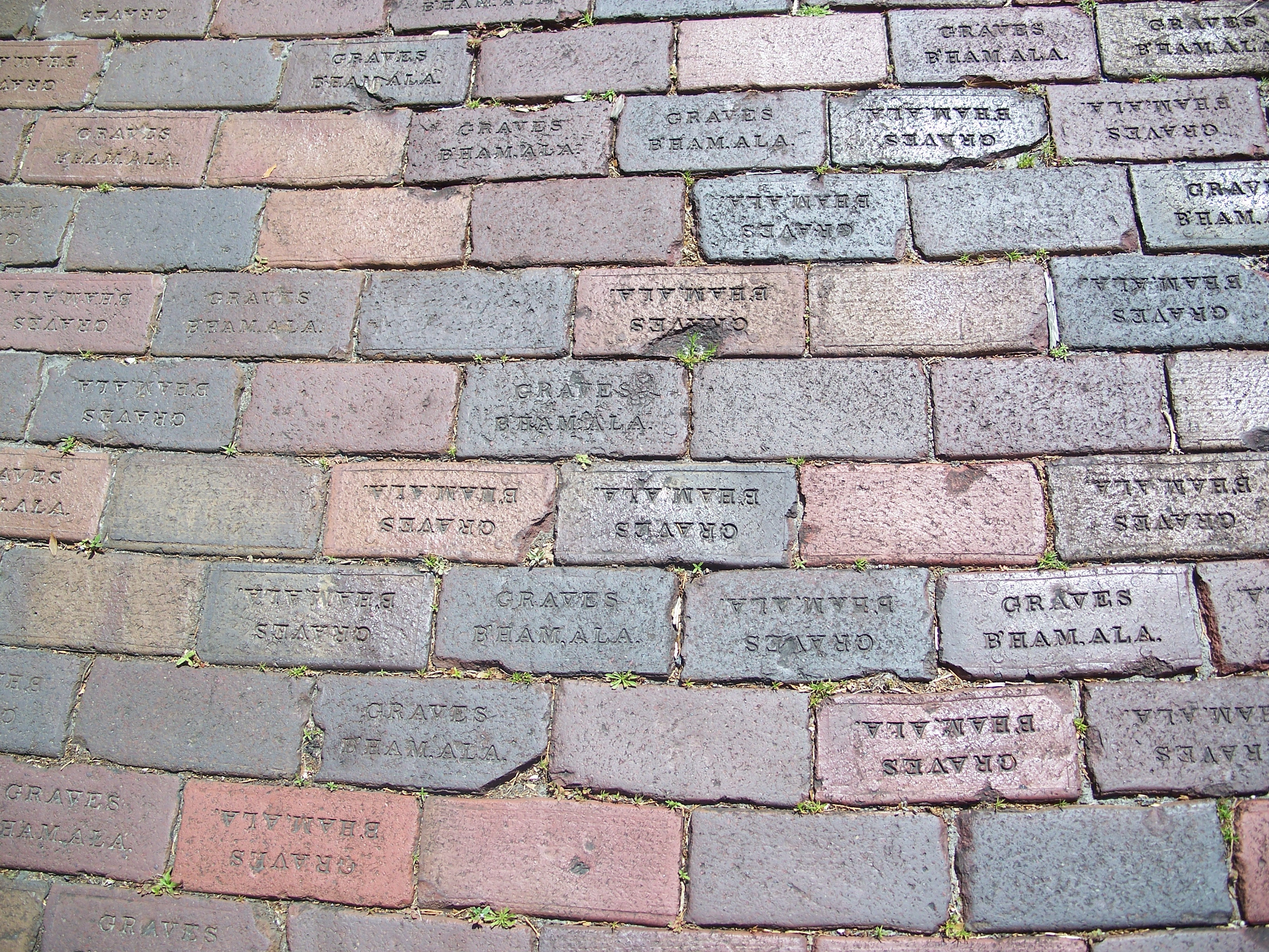 Brick street in the Palatka North Historic District, in Palatka, Florida